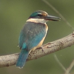 Bird, Sacred Kingfisher, Todiramphus sanctus